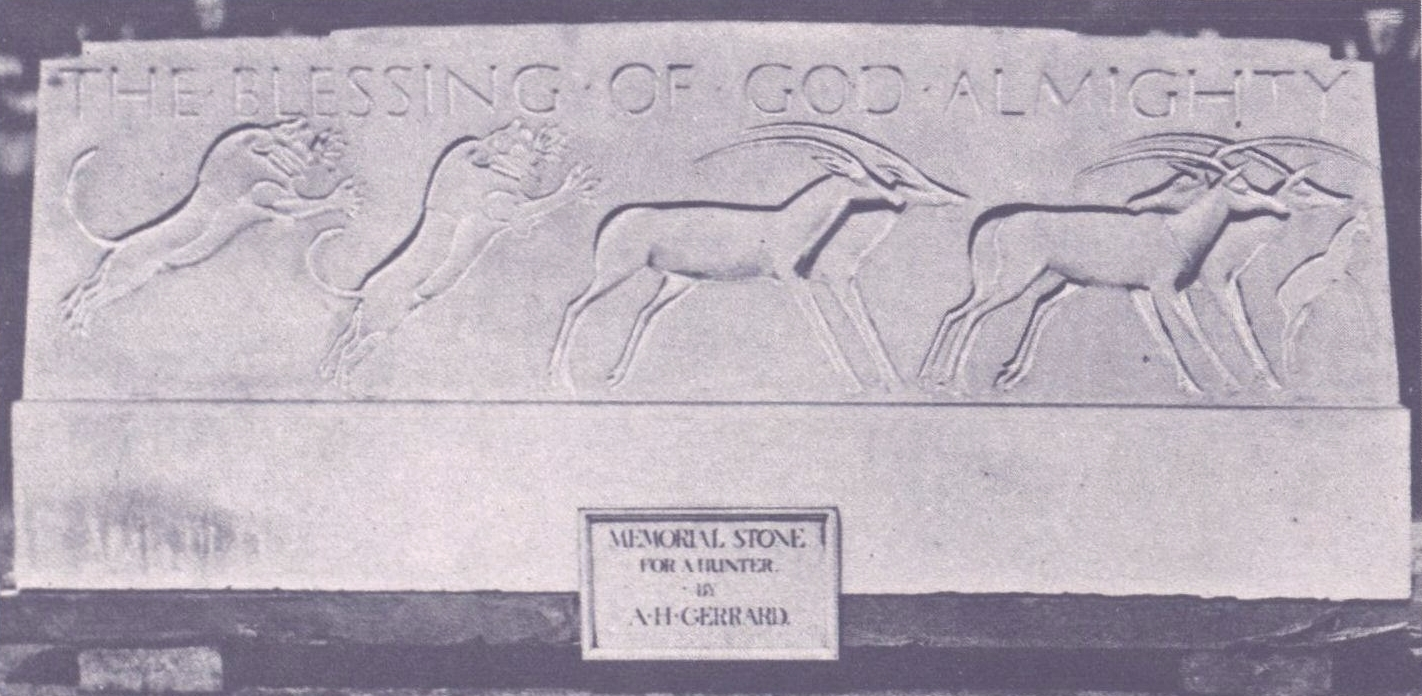 Memorial Stone for a Hunter, 1926 by Alfred Gerrard displayed at the Tate Gallery